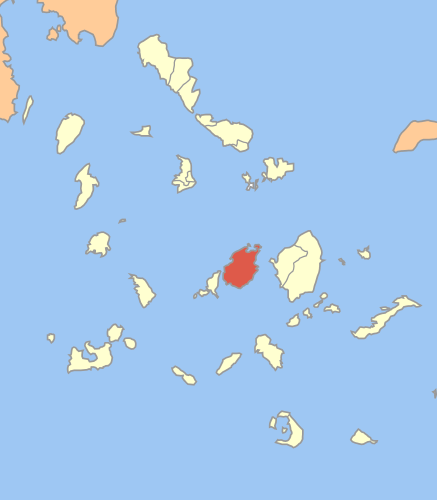 Locator map of Paros municipality (Δήμος Πάρου) in Cyclades prefecture (Νομός Κυκλάδων) in Greece.